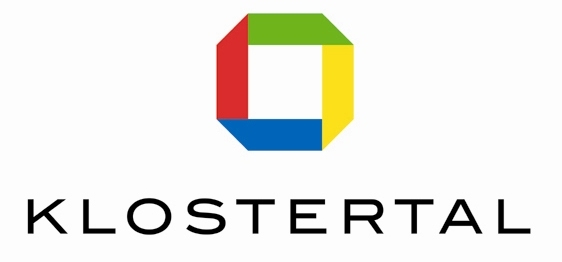 Logo of the REGIO Klostertal